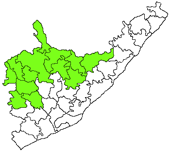 Palakonda revenue division in Srikakulam district (in Green)